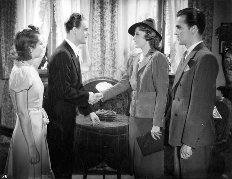 Scene from the Hungarian movie titled Varjú a toronyórán (released in 1938)